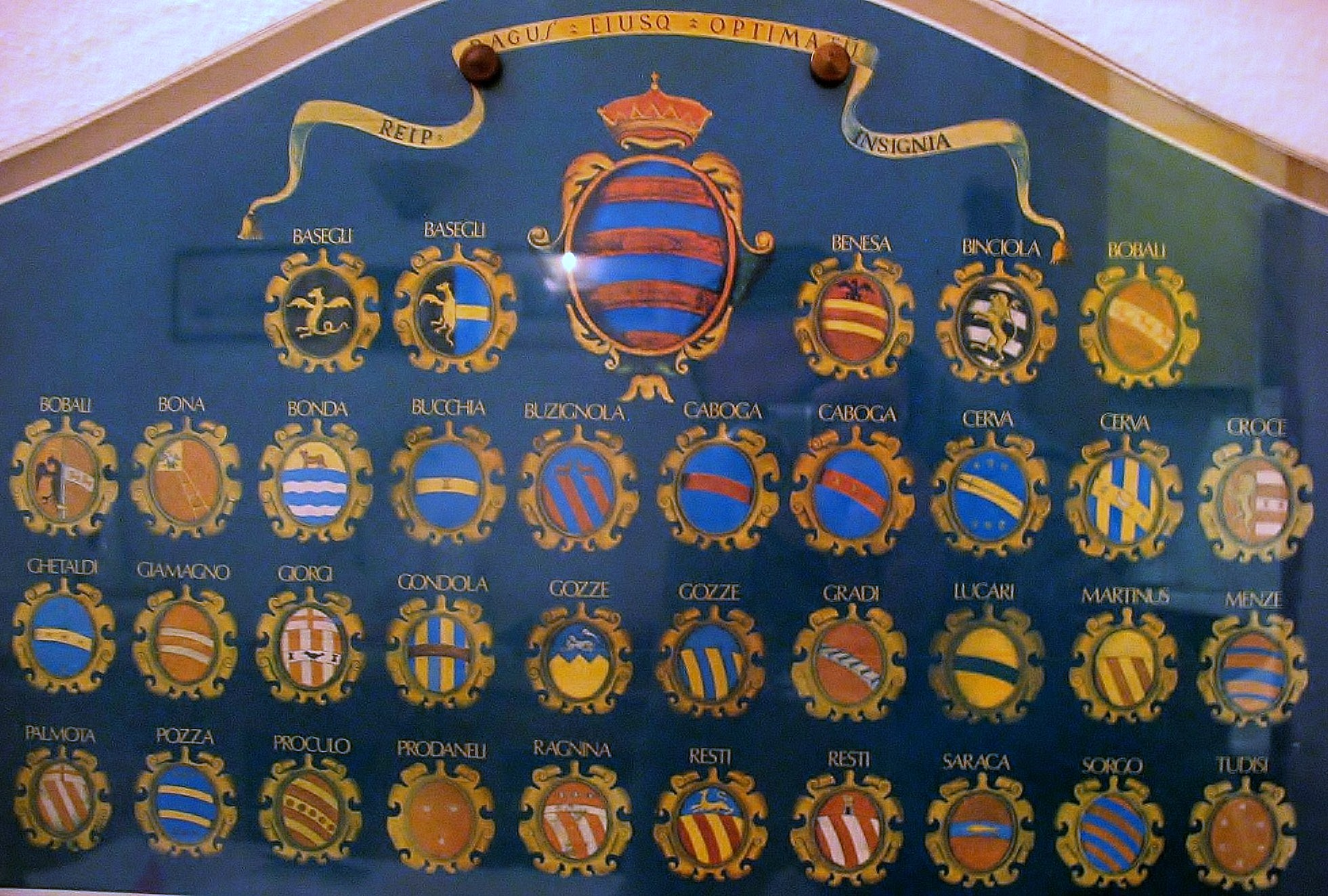 Own creation